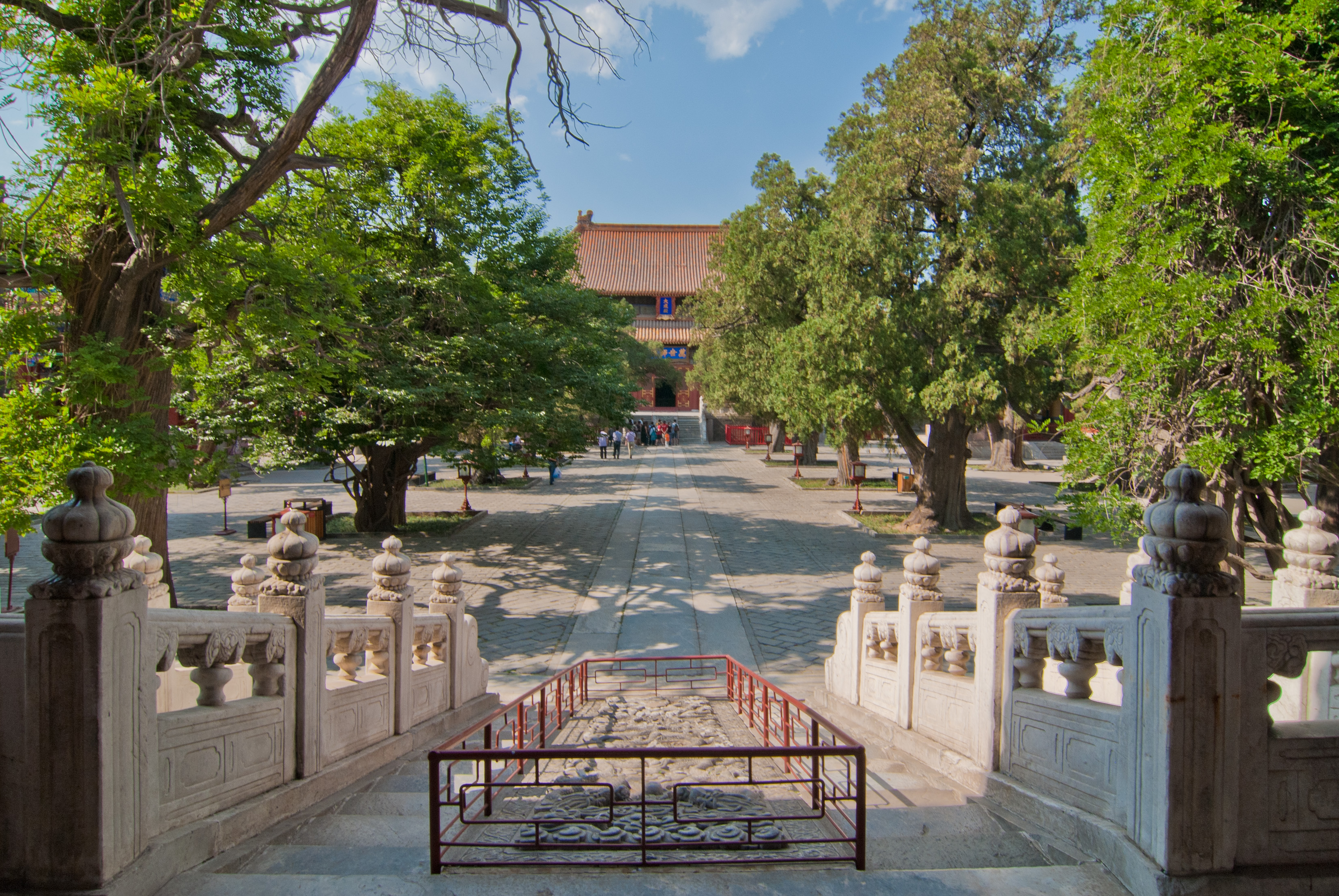 Beijing Temple of Confucius, view from south to north.